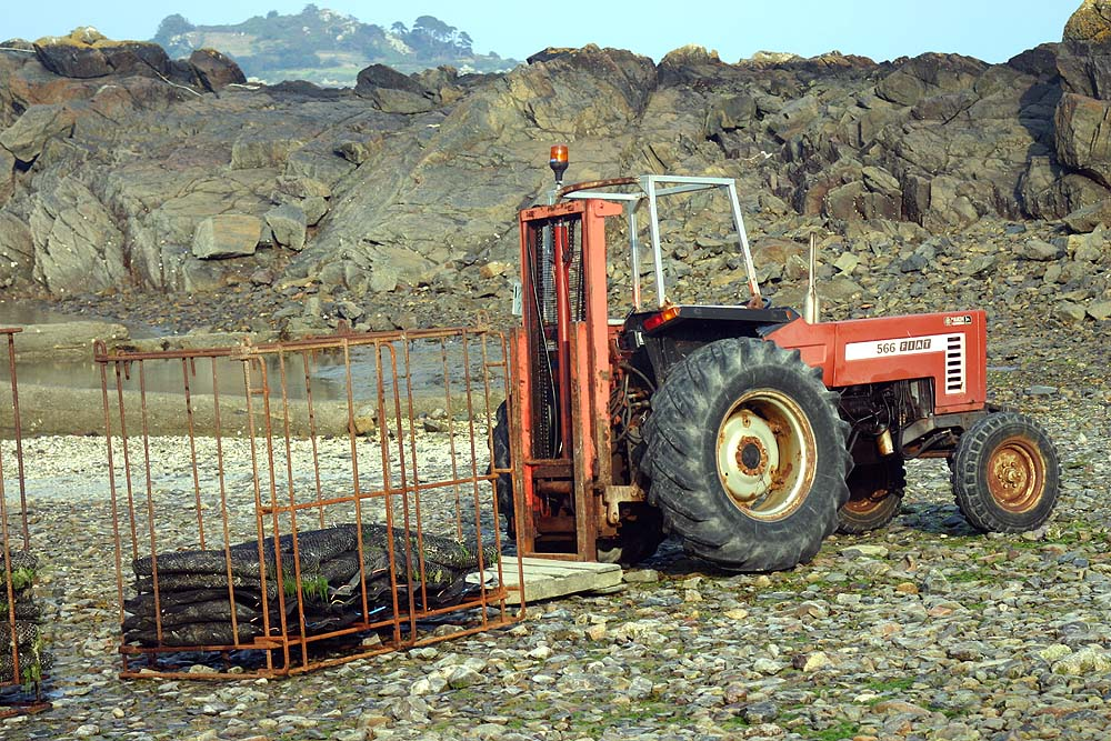 A Fiat 566 tractor with a forklift attachment and a cage with bags full of oysters, oyster farming somewhere in Brittany